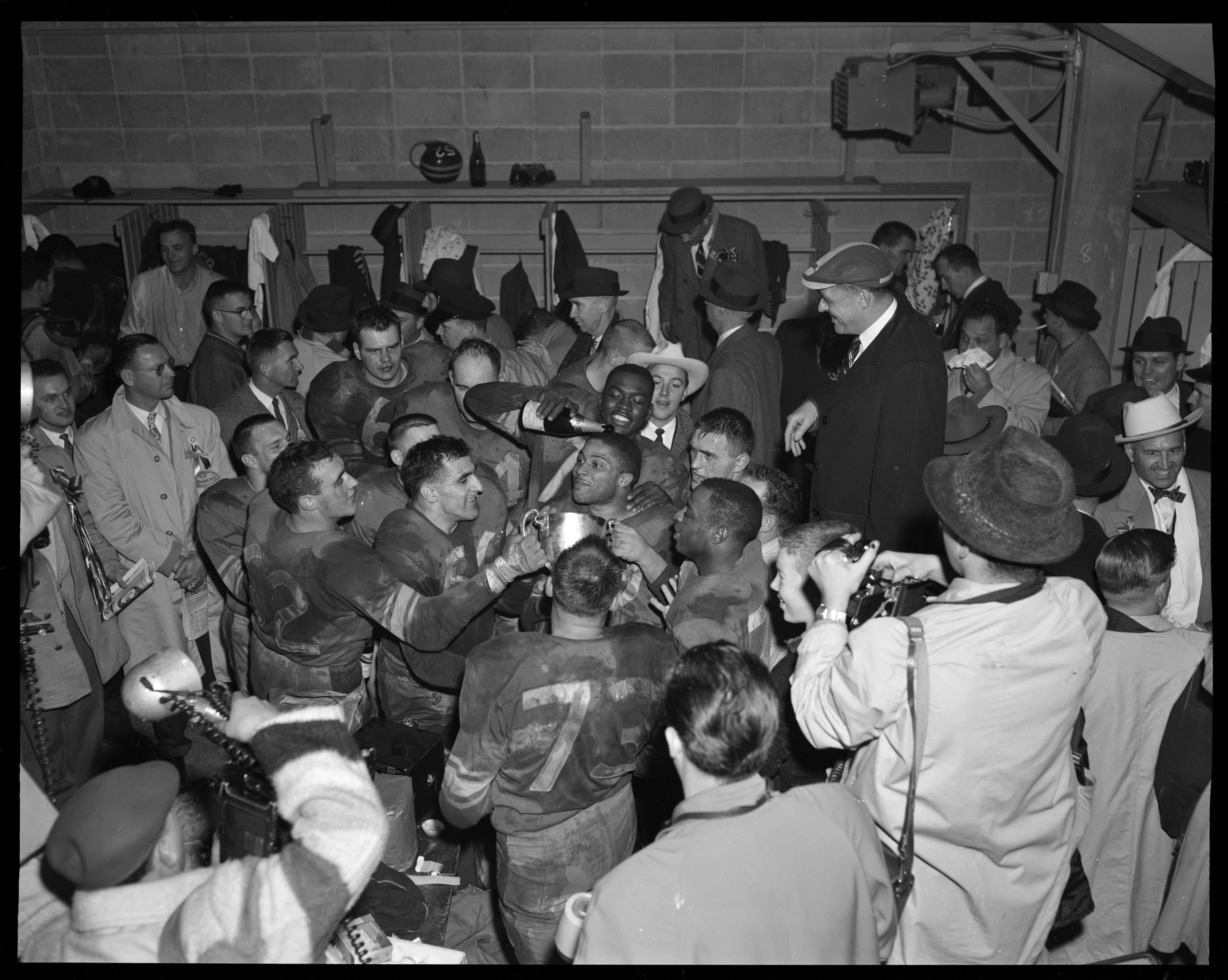 Winnipeg Blue Bombers locker room after Grey Cup victory VPL Accession Number: 43932 Date: November 28, 1958 Photographer/Studio: Province Newspaper Topic: Football Football players Football coaches Grey Cup Reporters and reporting Sports Organization: Empire Stadium (Vancouver, B.C.) Winnipeg Blue Bombers (Football team) Location: British Columbia - Vancouver - Hastings-Sunrise More information on our historical photograph collection